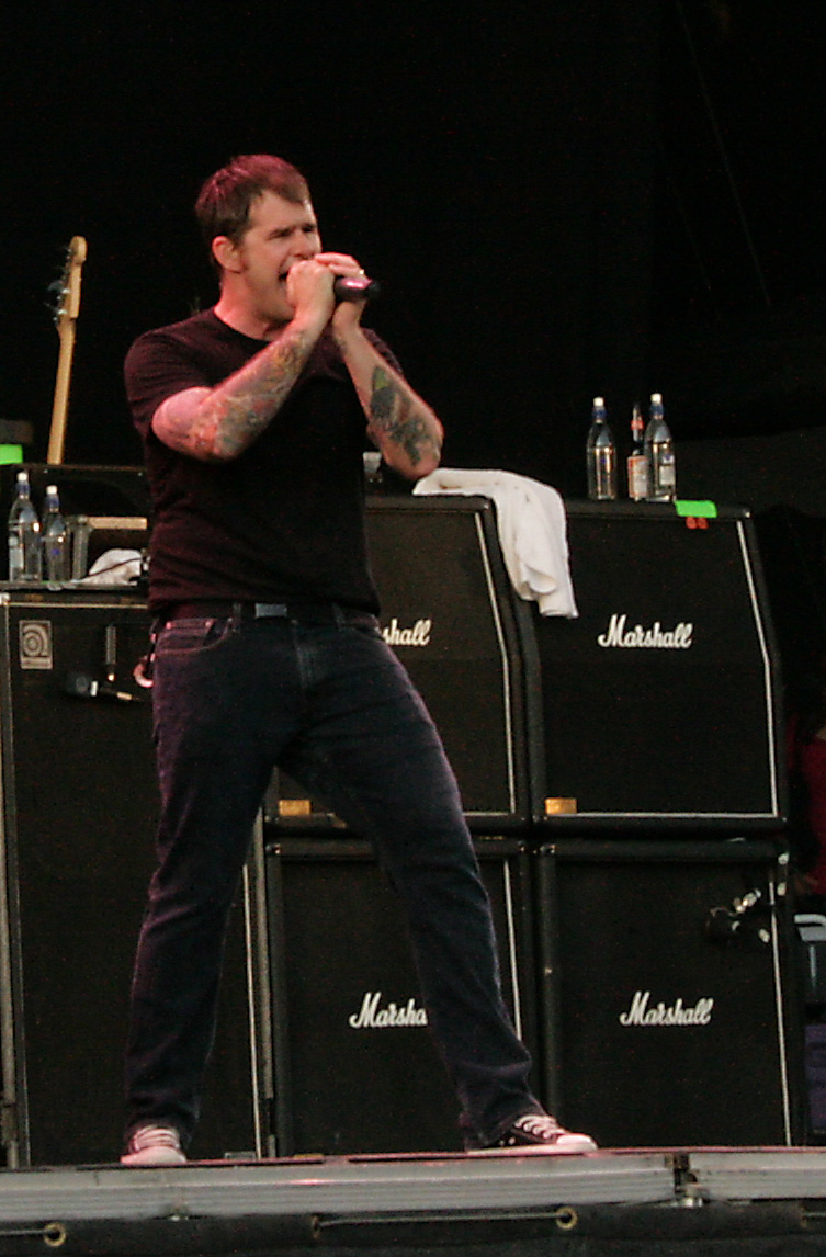 Al Barr, vocalist in Dropkick Murphys, Malmöfestivalen in Sweden, 2008.